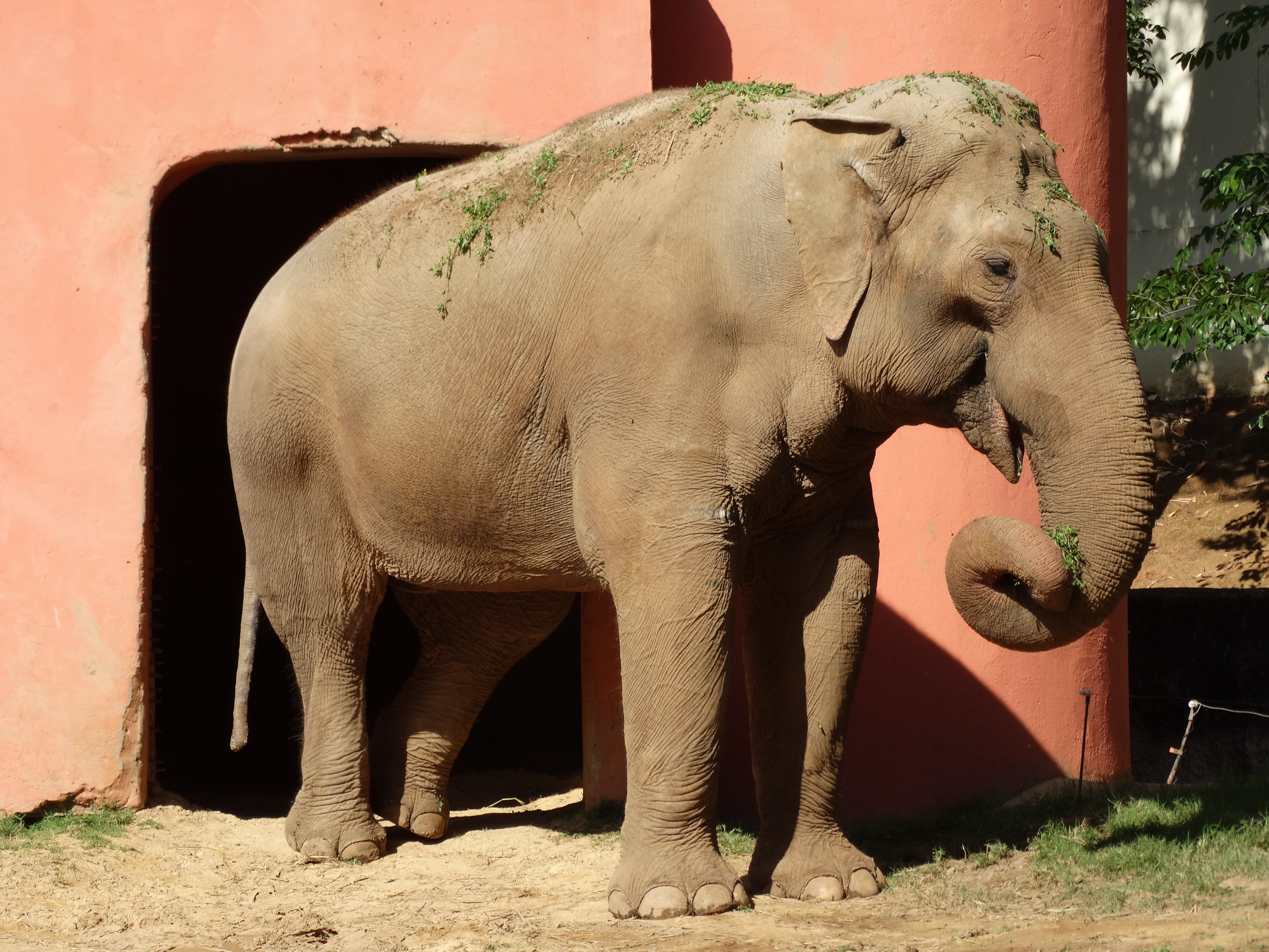 Asian elephant at Sorocaba Zoo.